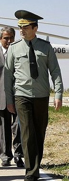 Oleg Ostapenko, July 31, 2009